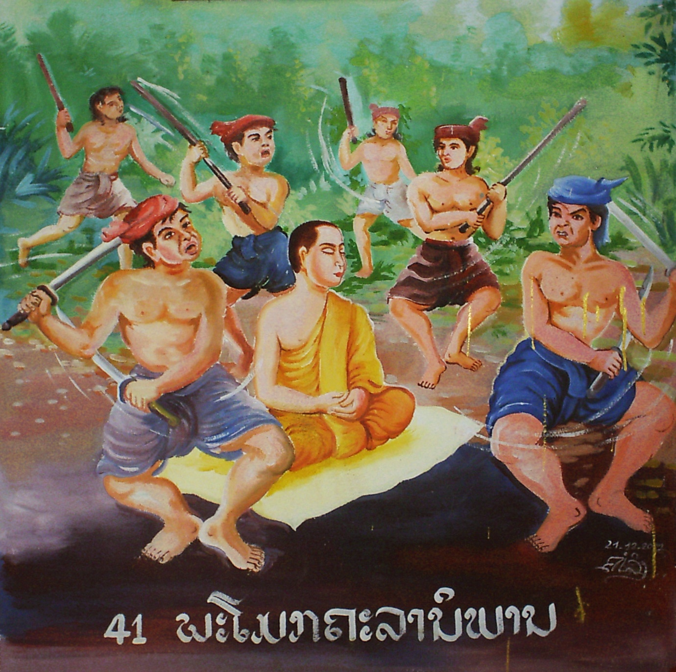 Description of attainment of Parinirvana by Mogallana. Moggallana was meditating, while some robbers or thieves came and attacked and killed him. Moggallana died and thus attained Parinibbana.